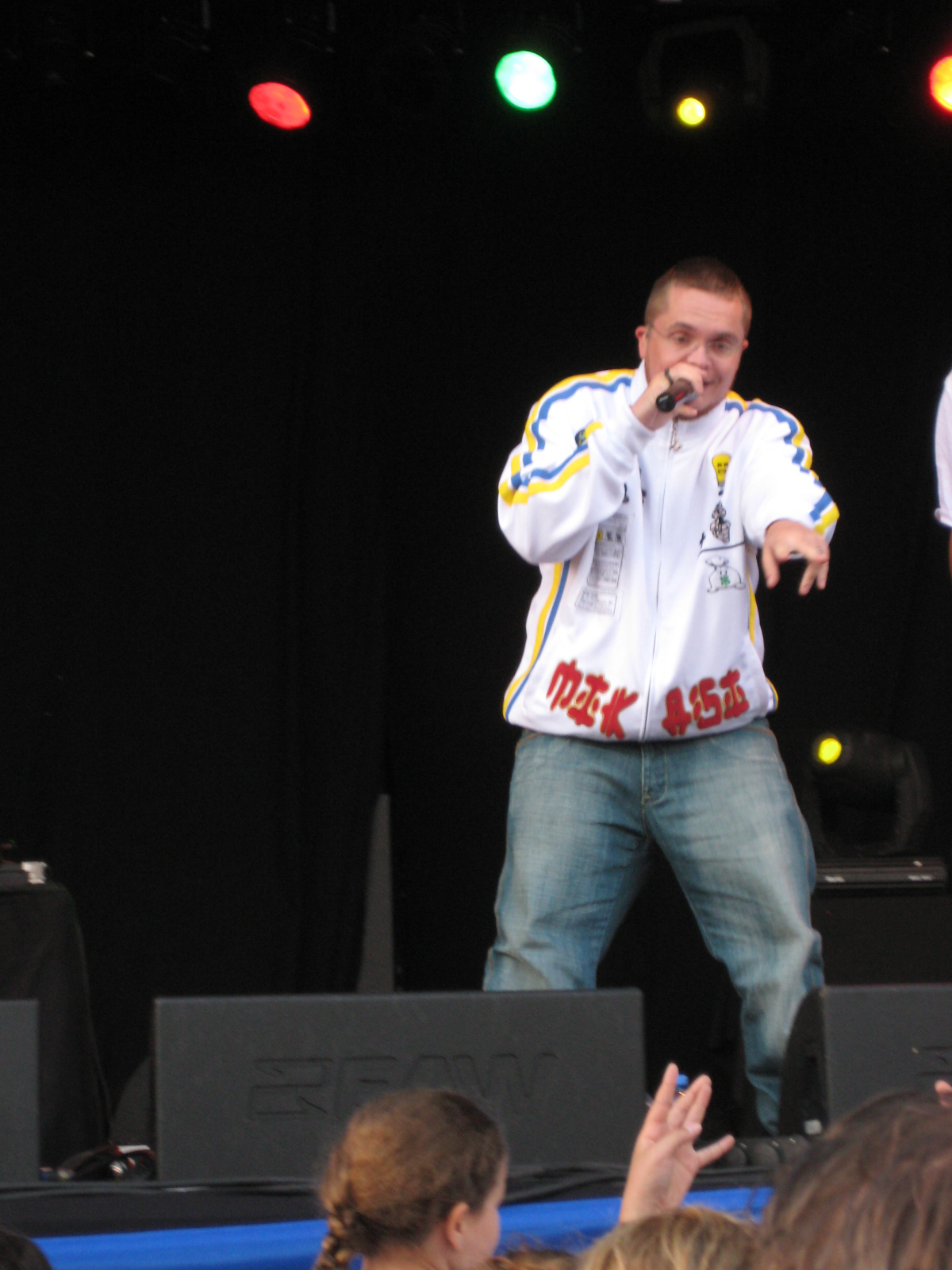 Rapper Brainpower from the Netherlands